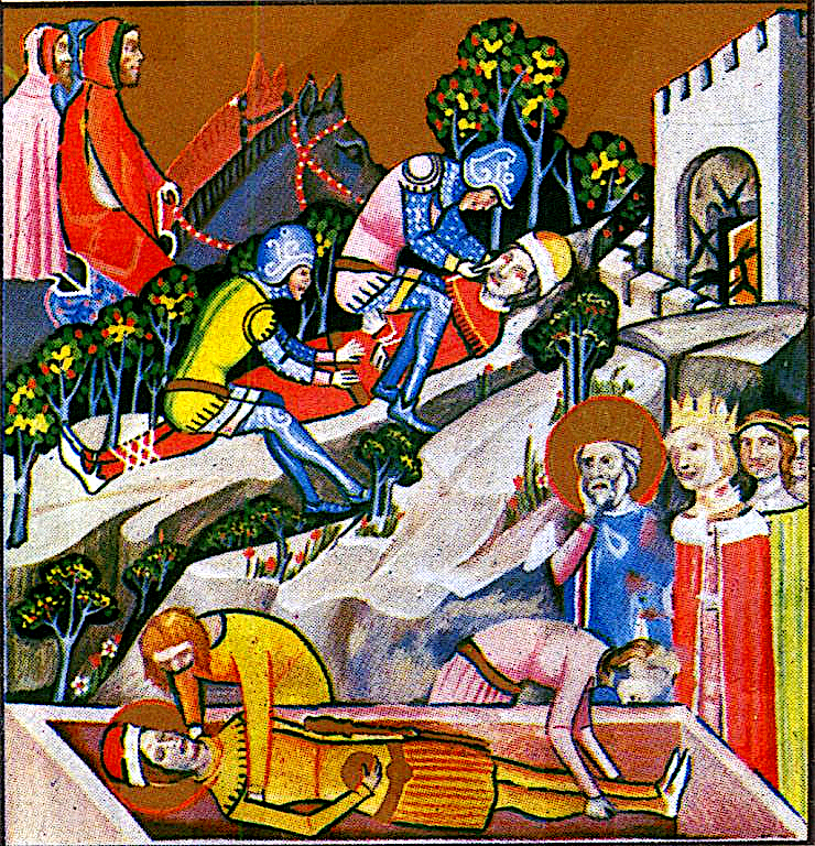 Funeral of Saint Emeric,Chronicon Pictum